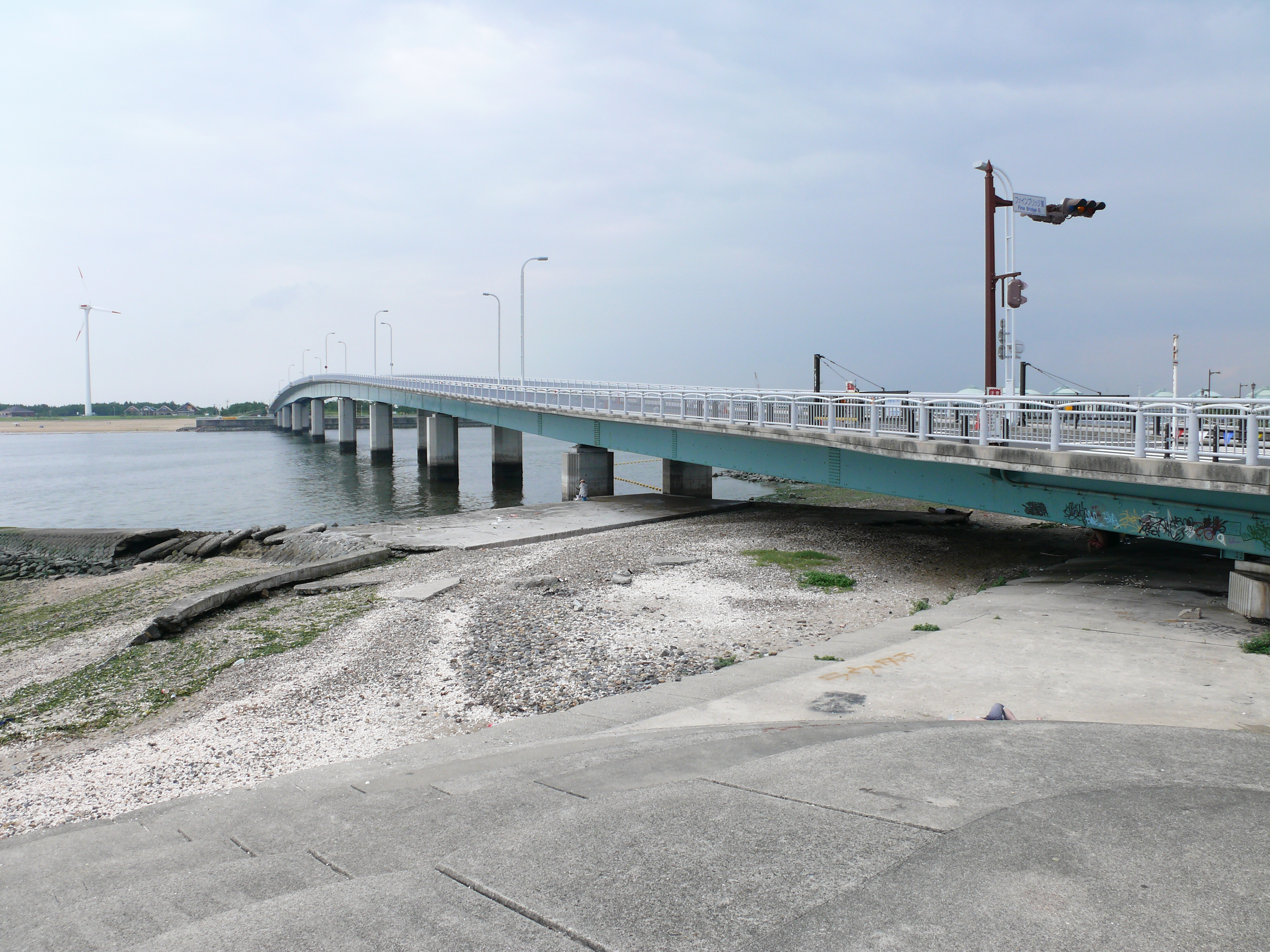 Shinmaiko Marine Park.